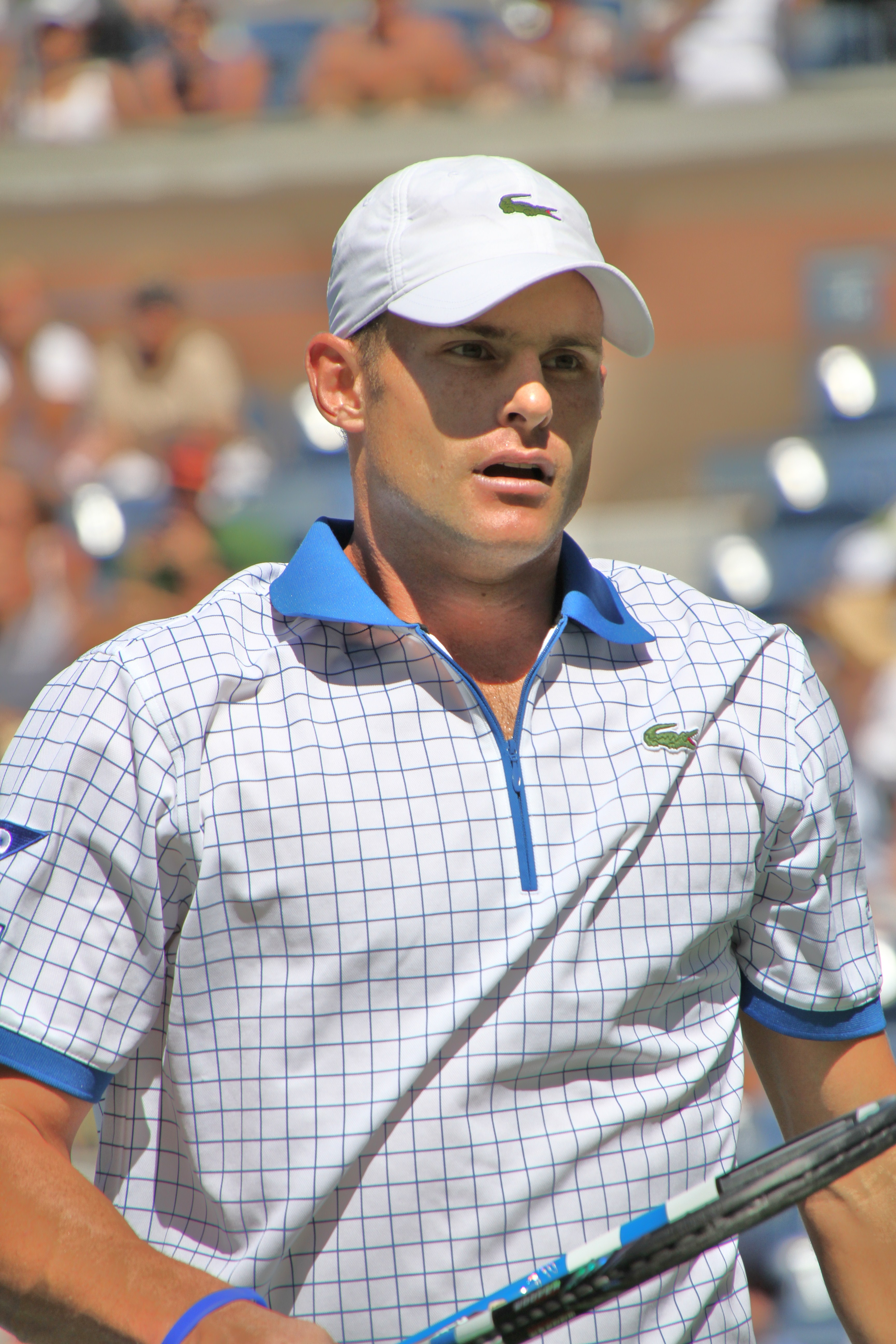 Andy Roddick, US Open Tennis 2010 1st Round 200